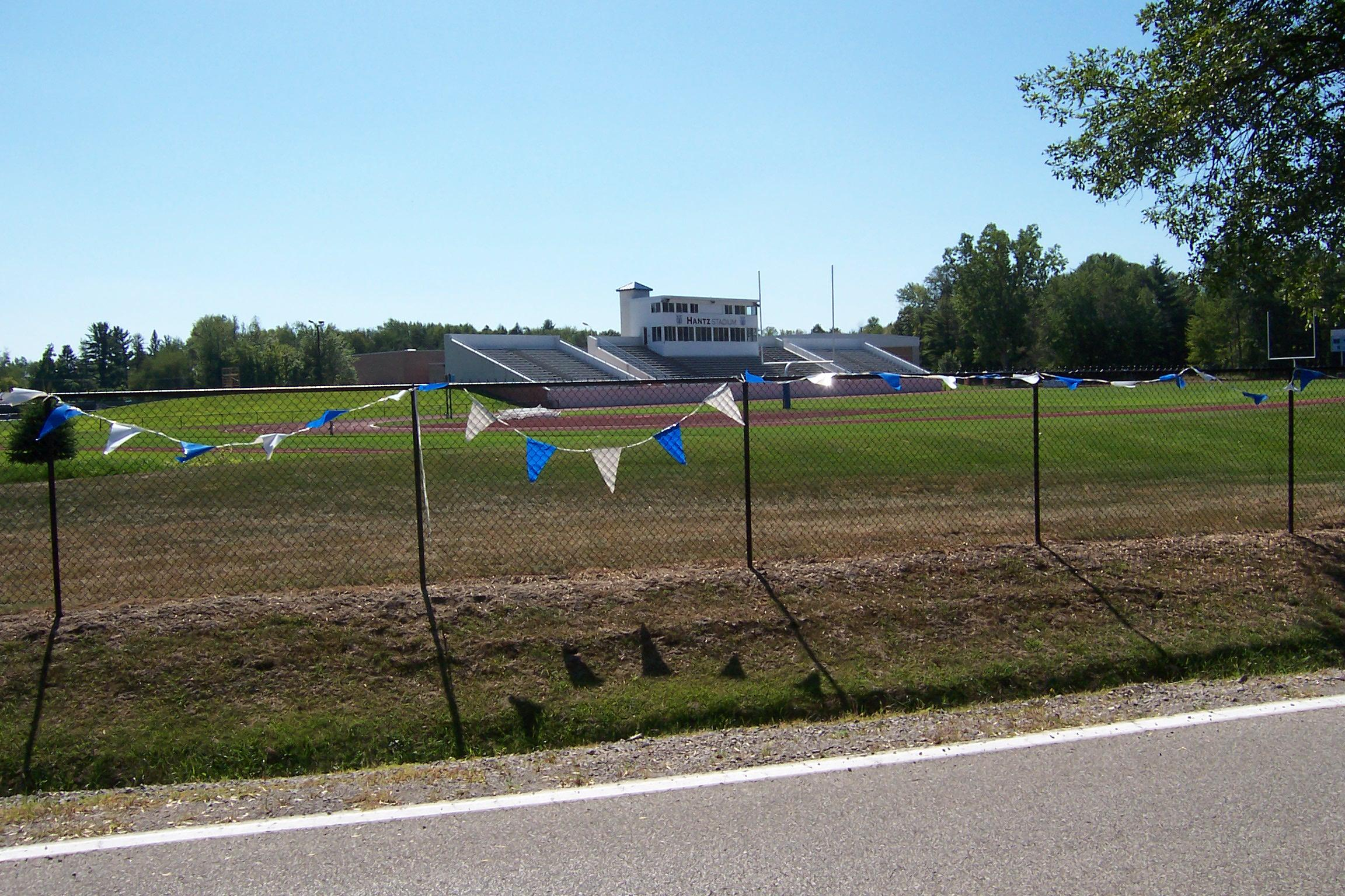 taken for this article